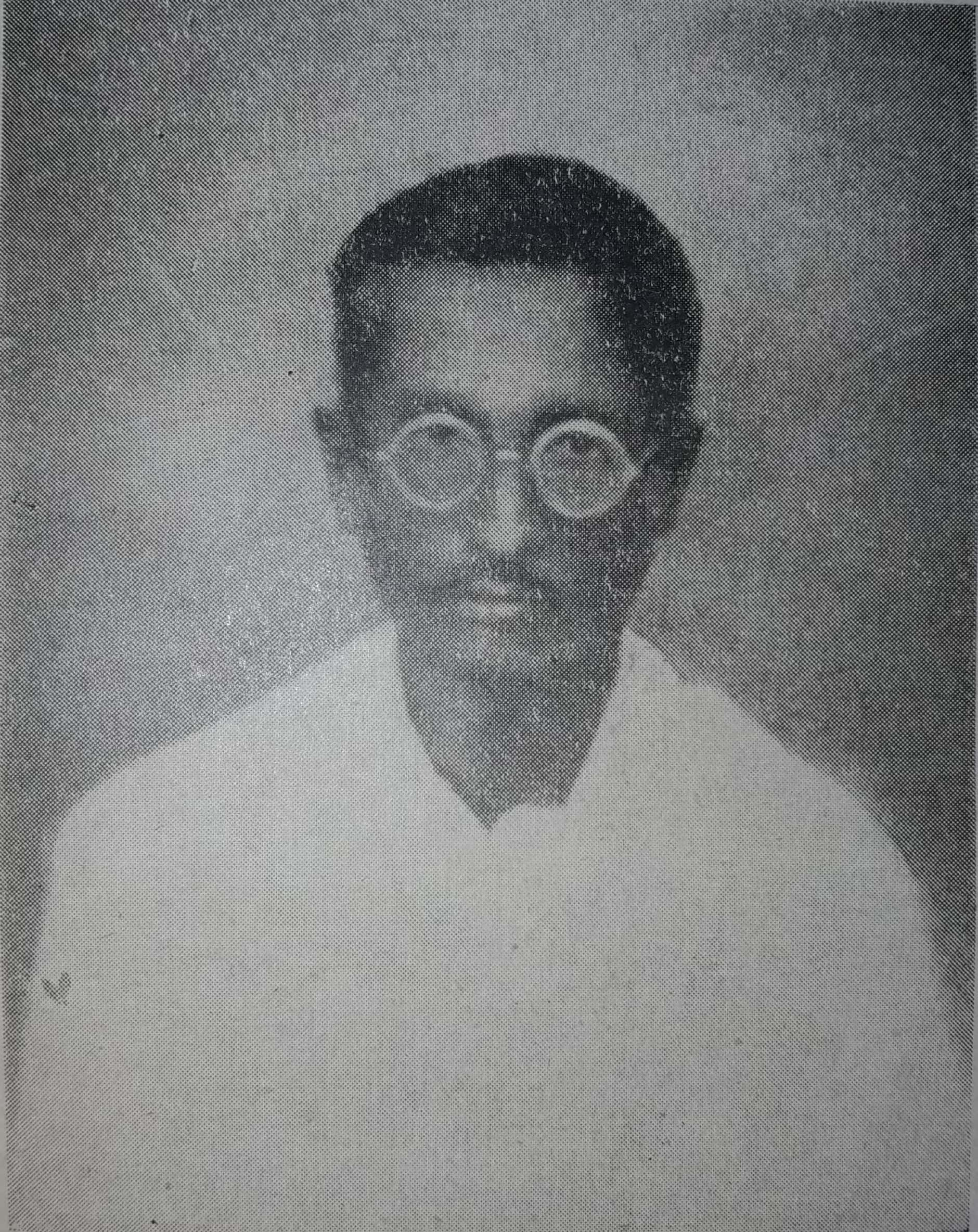 Chandra Kumar De (Chondrokumar De) (1889–1946)